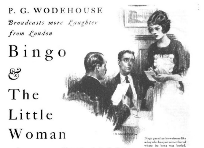 Illustration by T. D. Skidmore of Bertie Wooster, Bingo Little, and the waitress Bingo has fallen in love with, from the 1922 Cosmopolitan print of the P. G. Wodehouse short story "Bingo and the Little Woman"